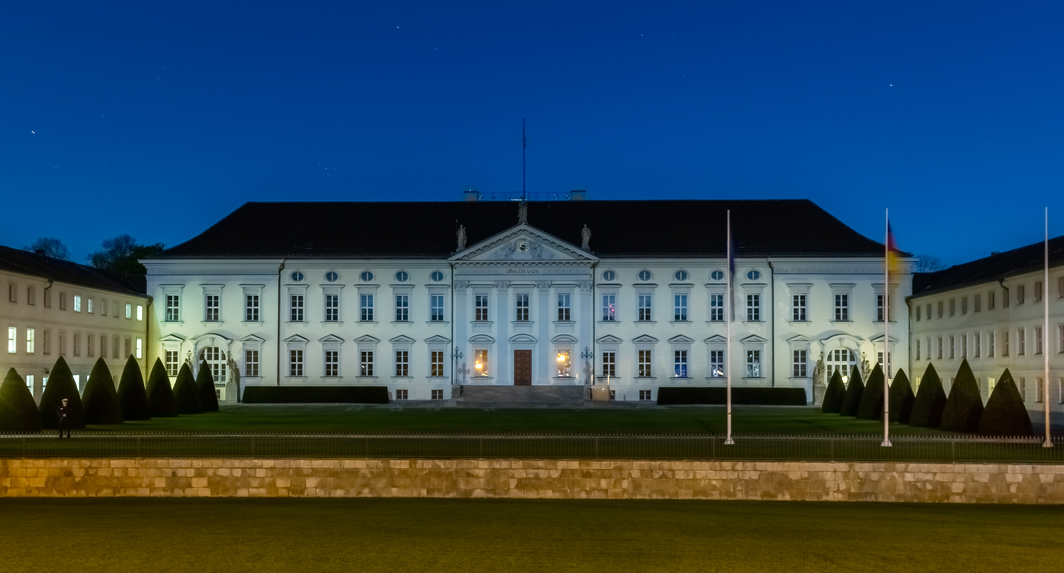 Bellevue Palace, Berlin, Germany